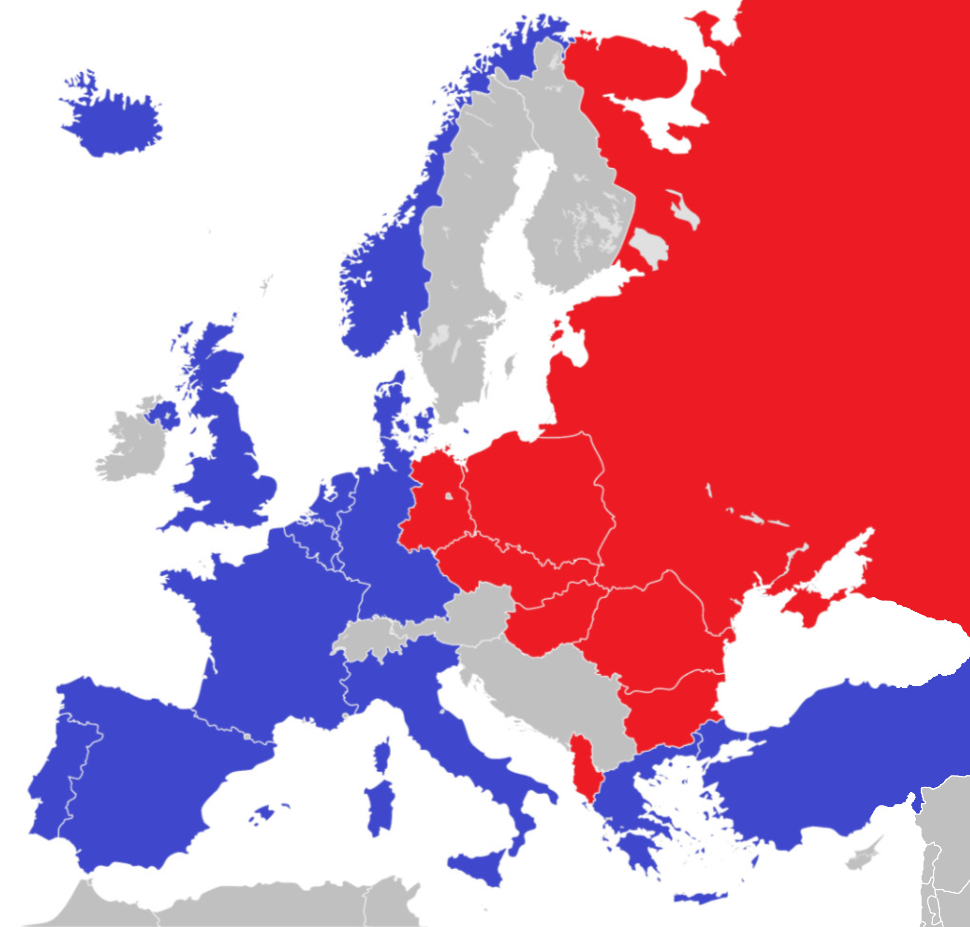 Division of Europe by the Iron Curtain